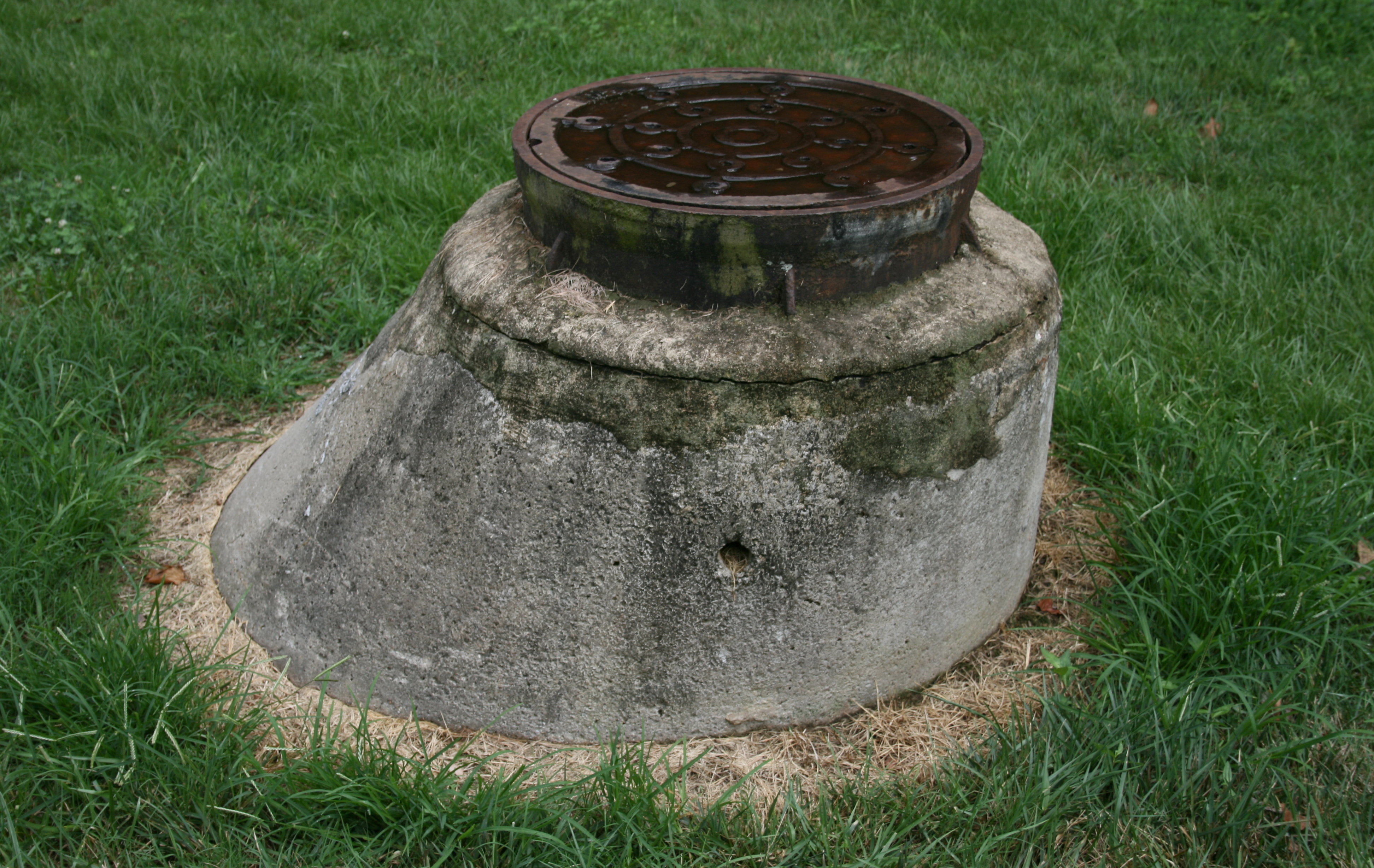 An elevated manhole after a rain in the Woodcroft neighbourhood of Durham, North Carolina.